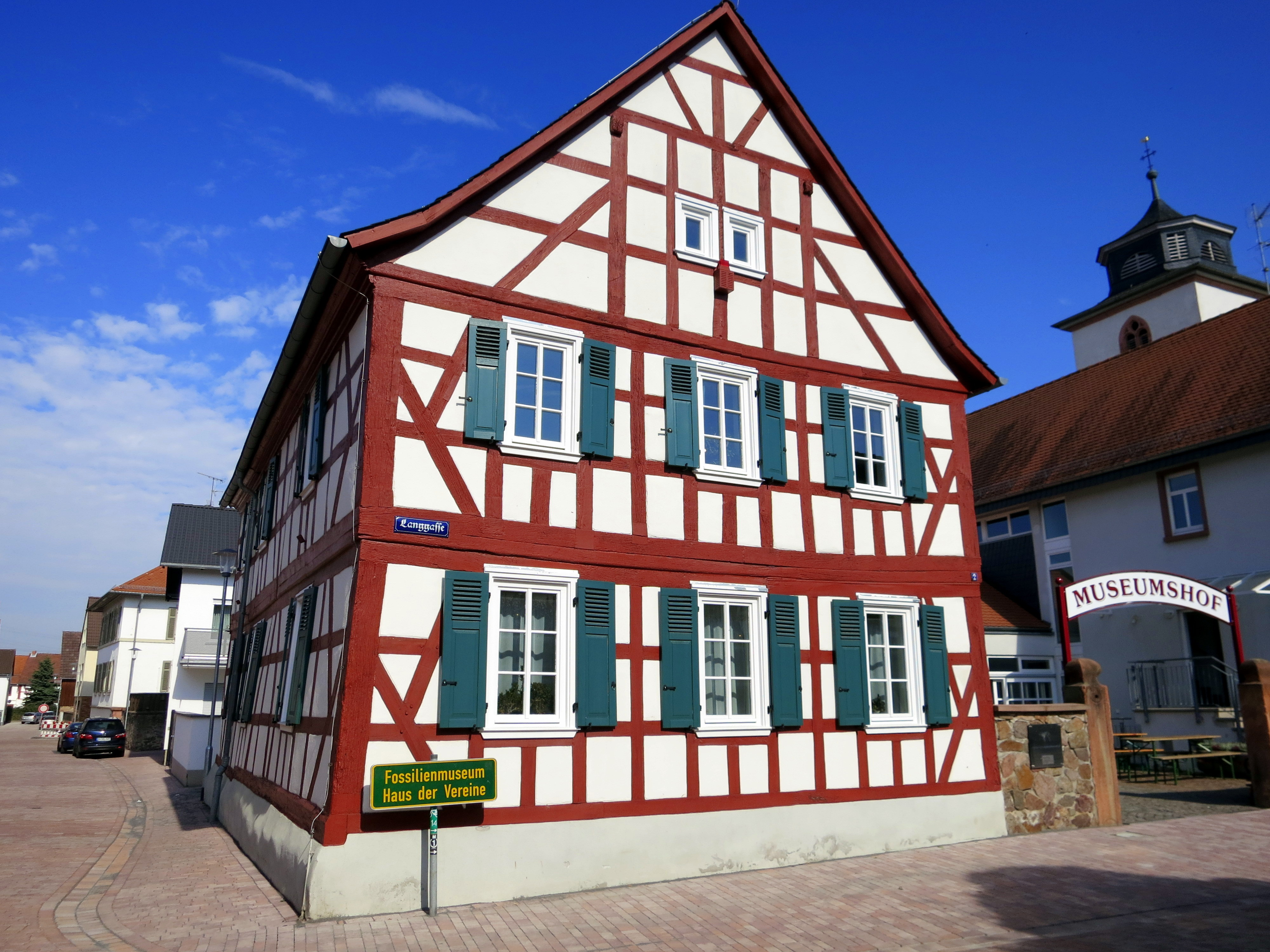 Fossil Museum and House of clubs